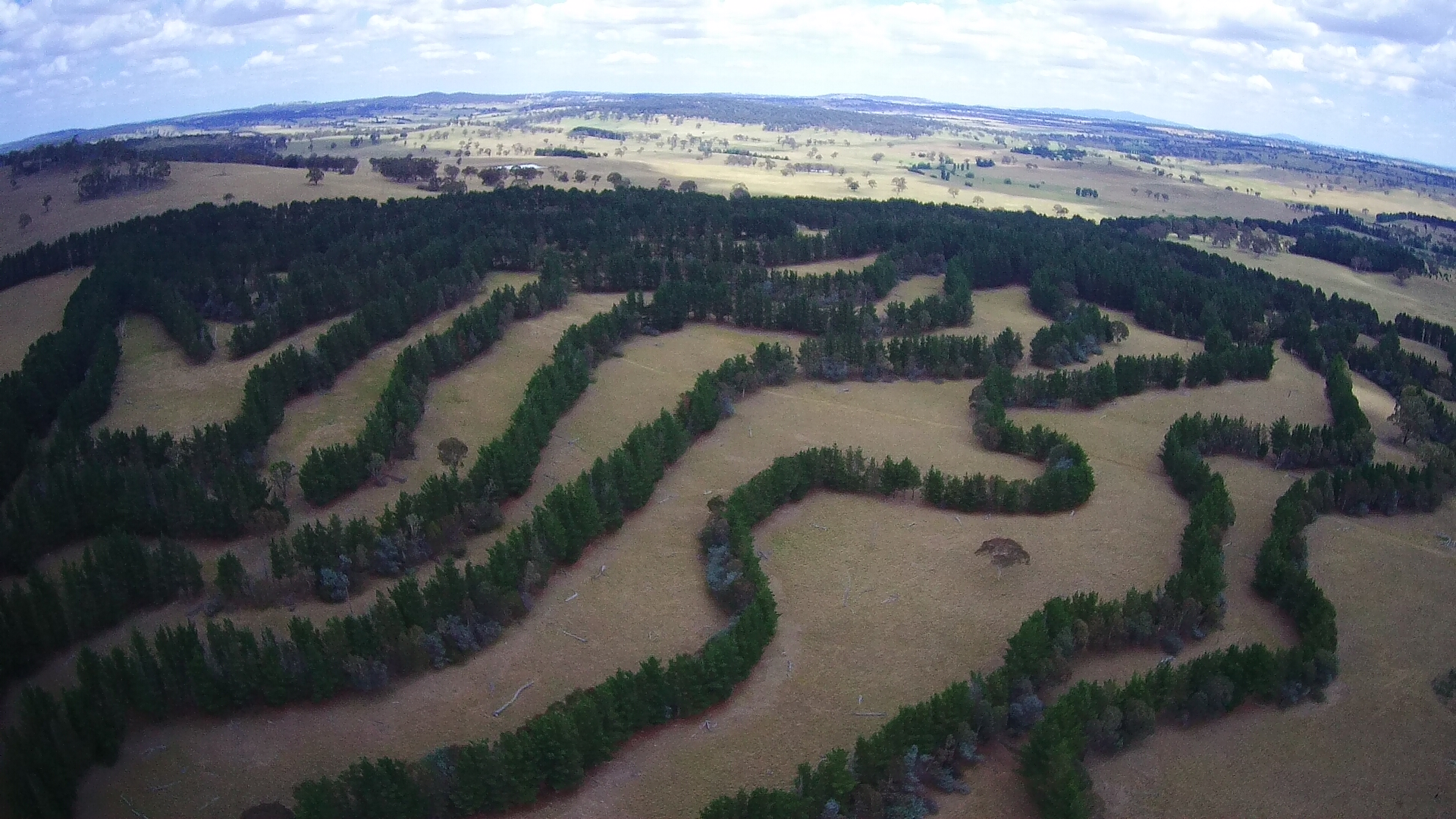 Agroforestry contour planting at "The Hill", Australia where a number of innovative practices have incorporated trees into a progressively regenerative system.